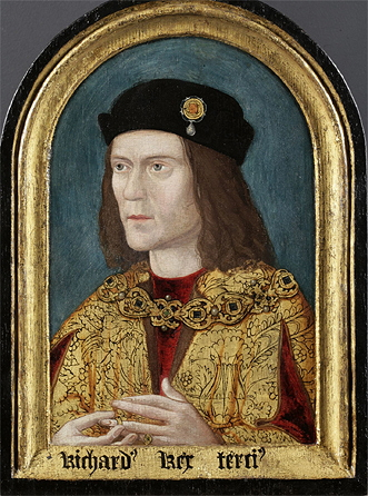 Portrait of Richard III of England, painted c. 1520 (approximate date from tree-rings on panel), after a lost original, for the Paston family, owned by the Society of Antiquaries, London, since 1828.